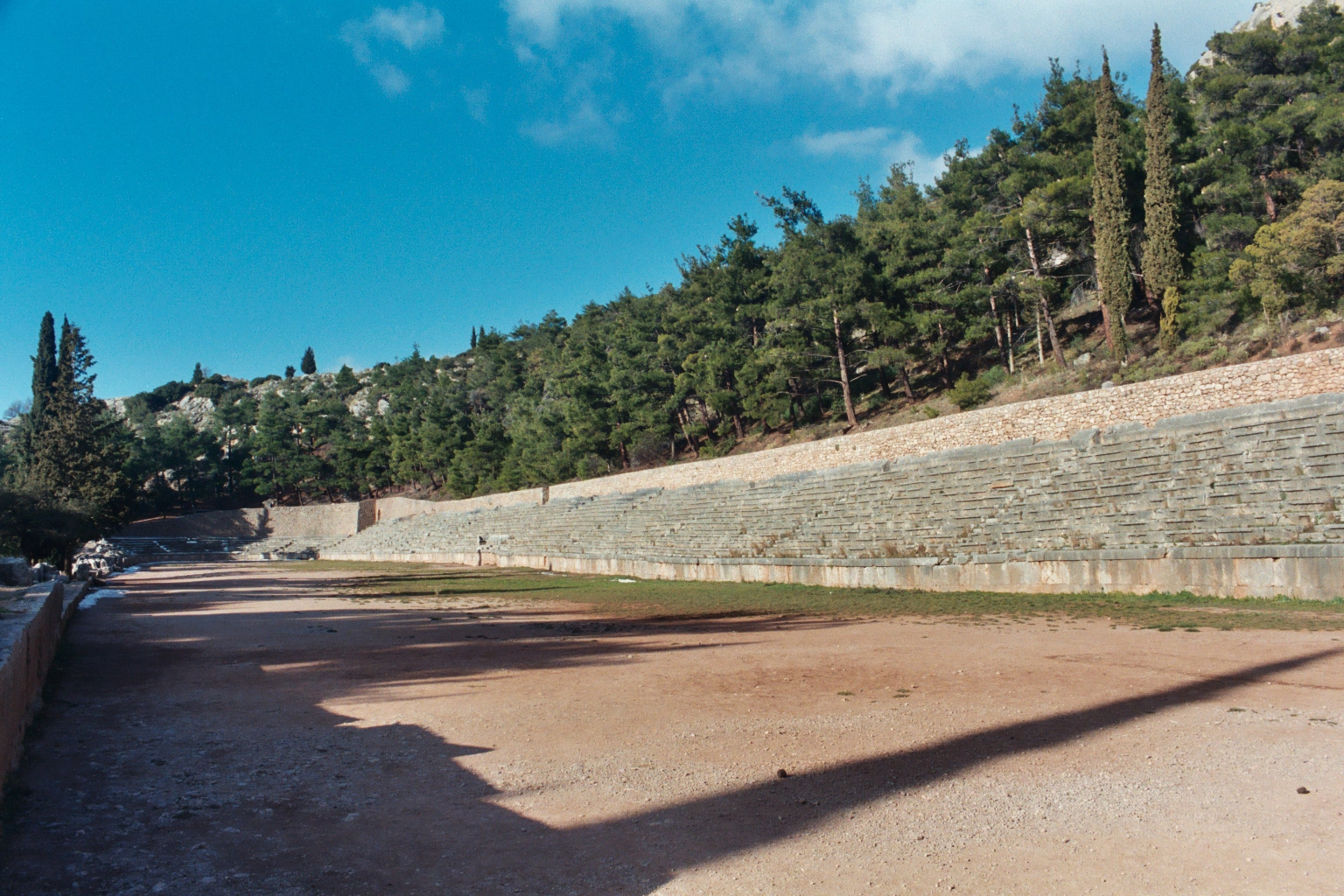 Ancient athletics stadium at Delphi